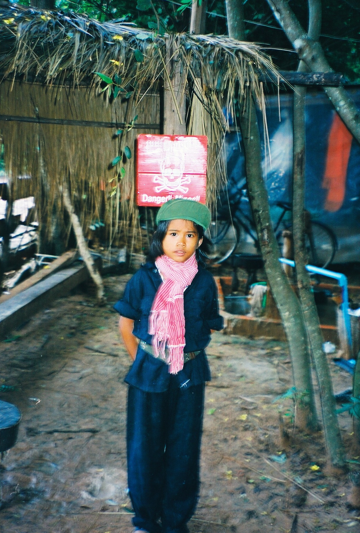 Child dressed up as a Khmer Rouge soldier. Image supplied by Antonio Graceffo.